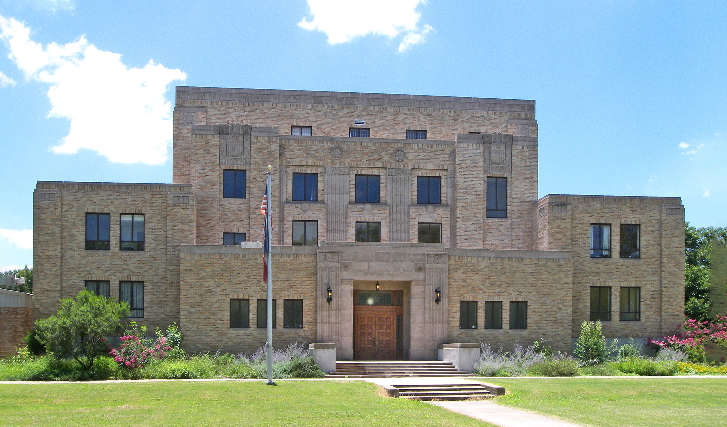 The Menard County, Texas courthouse located at 206 E. San Saba St, Menard, Texas, United States. The building was listed on the National Register of Historic Places on September 12, 2003.